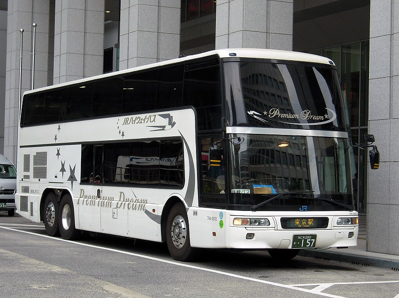 Nishinihon JR bus Mitsubishi Fuso Aero KingHighwaybus "Premium Dream"